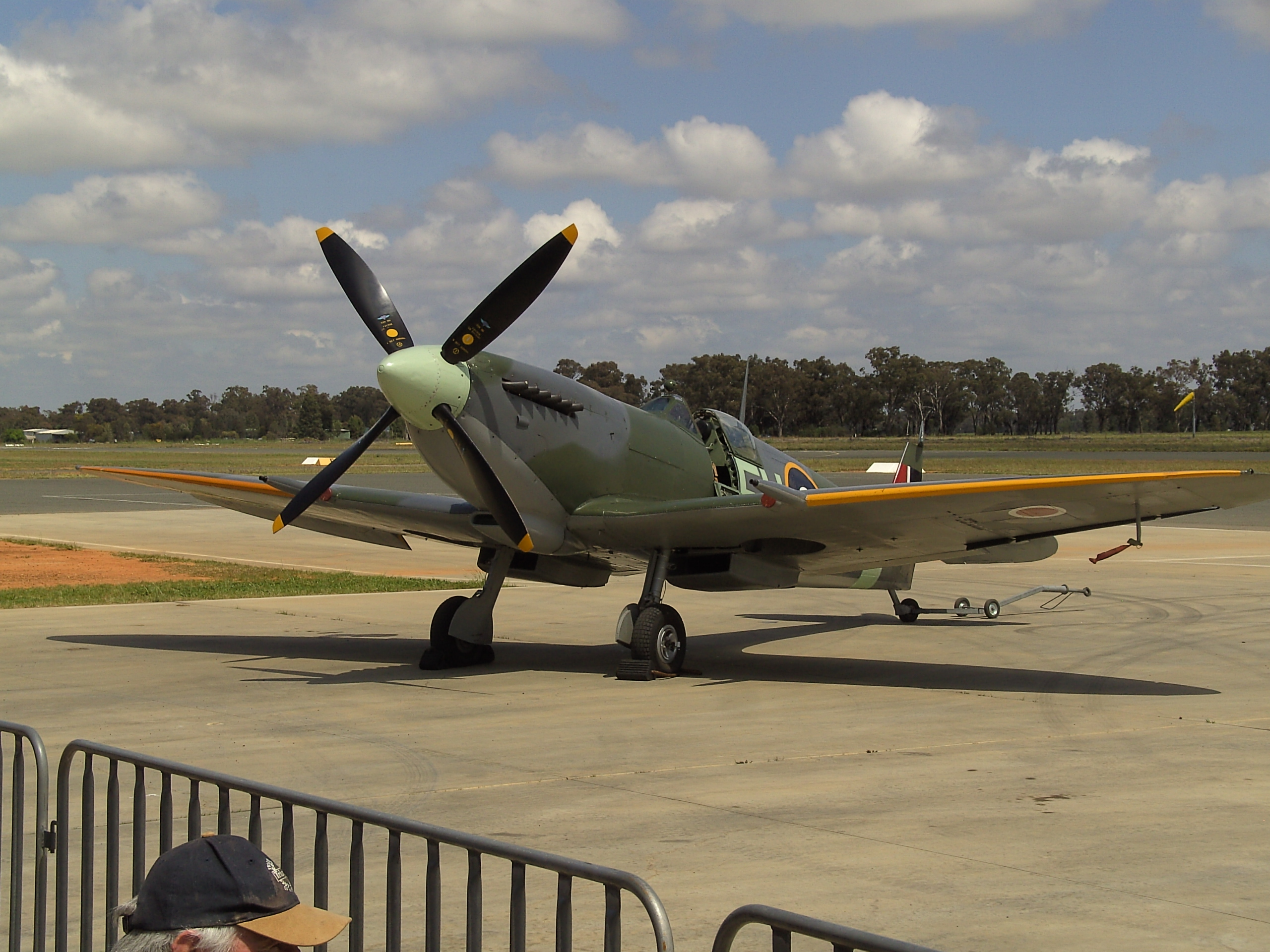 Supermarine Spitfire Mark XVI (16) (Temora Aviation Museum)